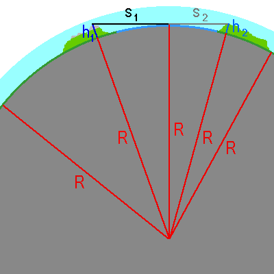 Diagramm demonstrating the calculation of the limitation of visual range by curvature of earth.